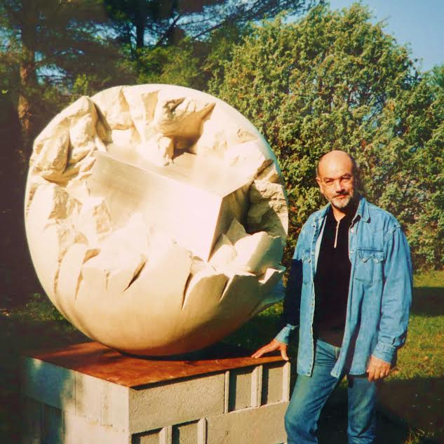 1998. Stainless steel and Concrete